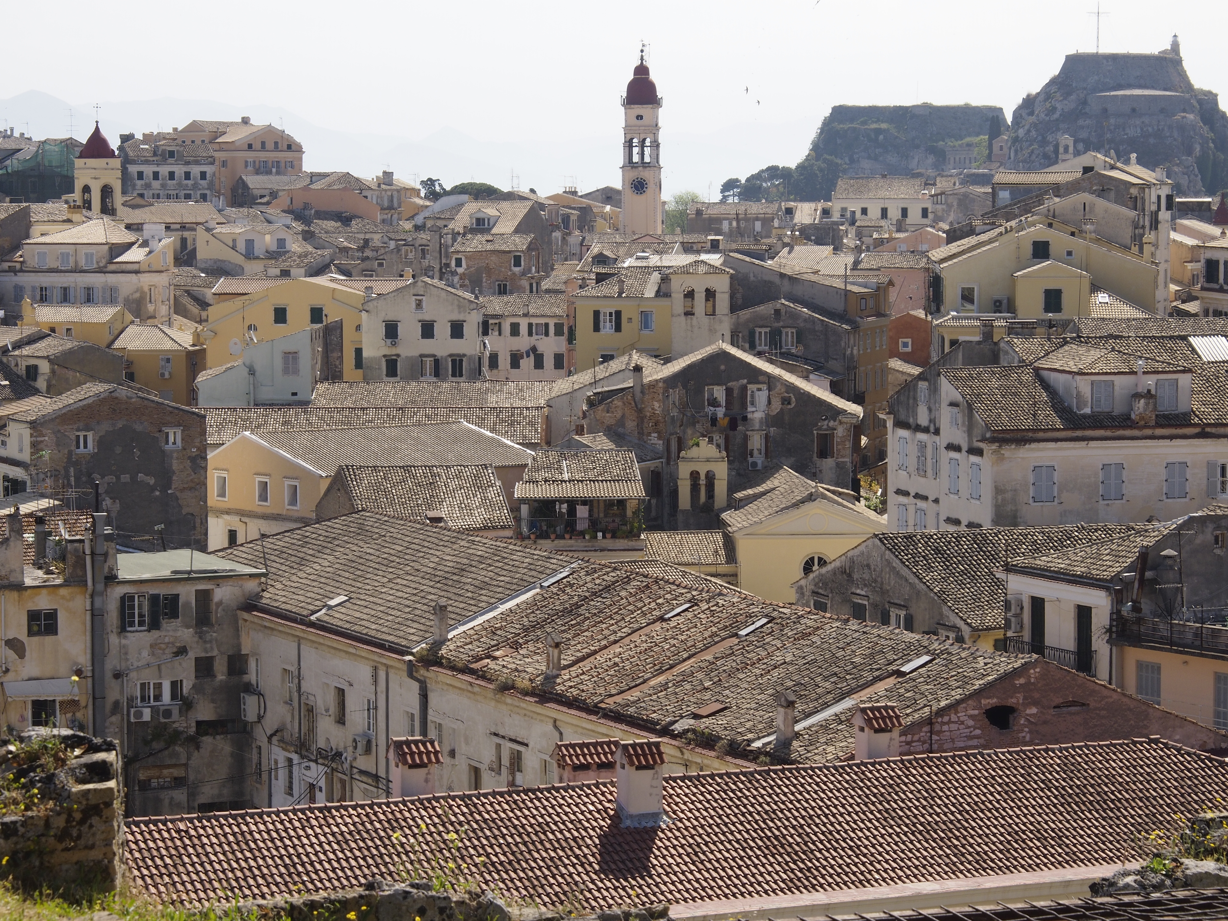 View over the old town of Corfu and the Old Fortress